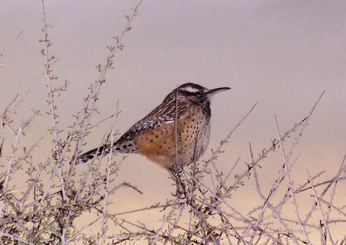 Cactus Wren (Campylorhynchus brunneicapillus) in Joshua Tree National Park